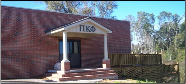 A picture of the Pi Kappa Phi fraternity Gamma Gamma Chapter house at Troy University.